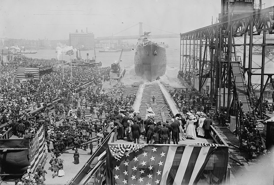 Launching of "Vestal" - into the water, Brooklyn, N.Y.